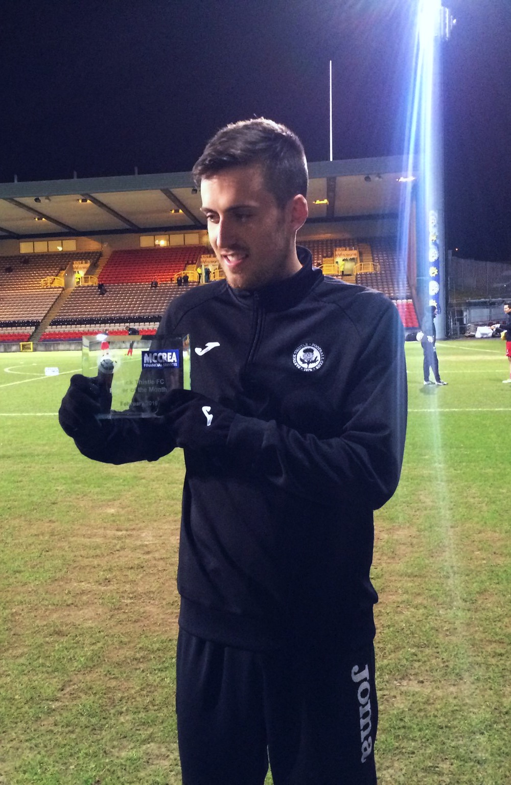 A picture of Calum Booth receiving a player award, 2016.